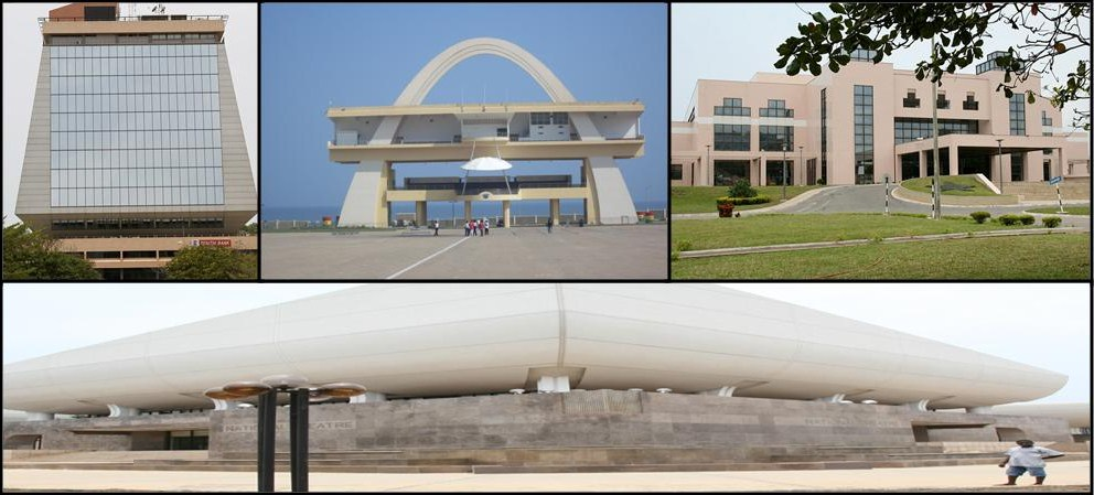 Postmodern Architecture and Futurist Architecture, Buildings and Architecture in Ghana, from top to bottom and left to right: 1. Pyramid House. 2. Independence Square Arch building. 3. International Conference Centre building. 4. National Theatre building.